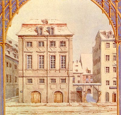 Detail of a watercolour of the Gewandhaus in Leipzig by Felix Mendelssohn